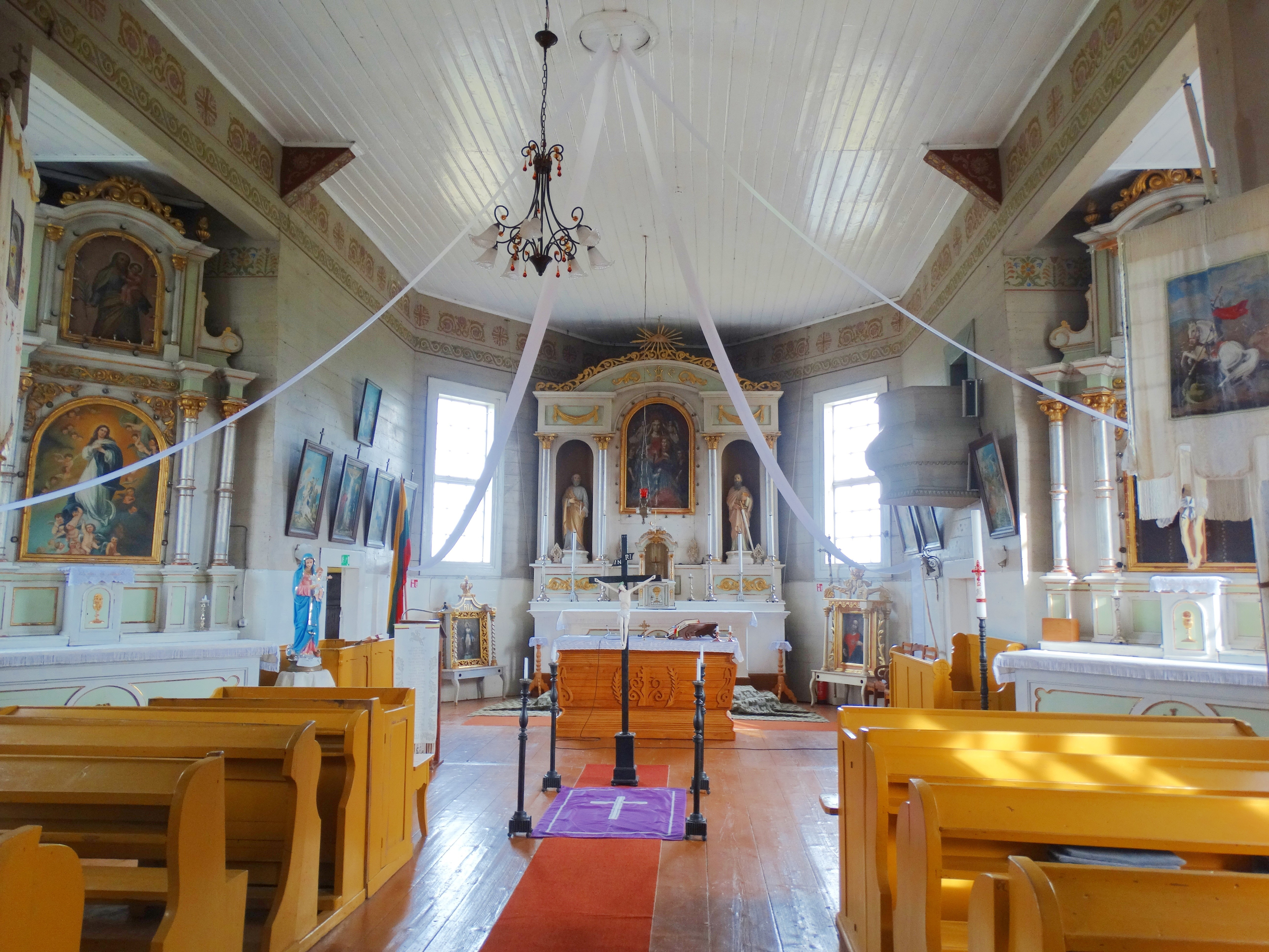 Catholic church, Lesčiai, Raseiniai district, Lithuania